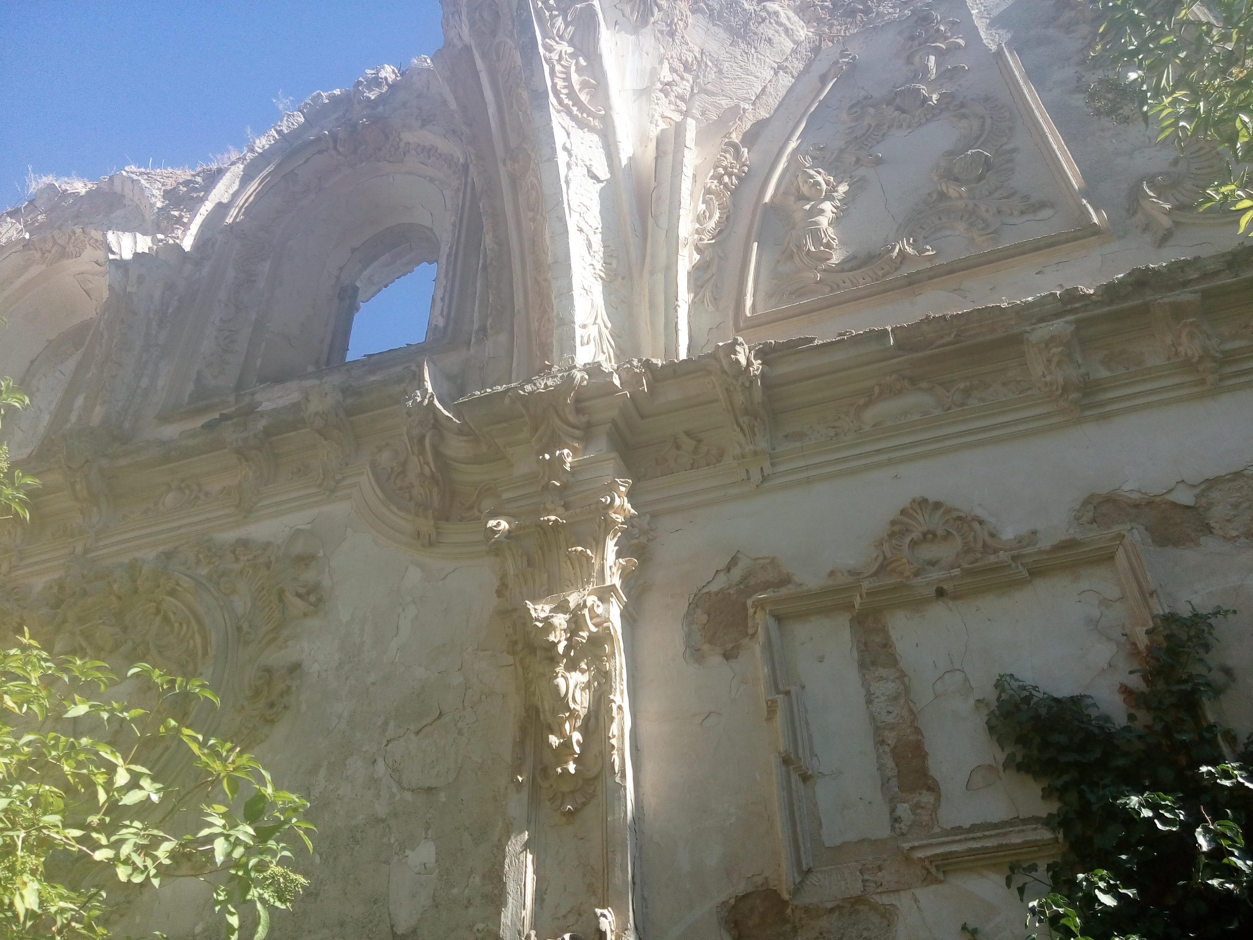 Ruinas del monasterio de Aniago en el término de Villanueva de Duero, Valladolid, España. Yeserías barrocas de mediados del XVIII sobre los muros de la capilla del siglo XVI. Gran repertorio decorativo.